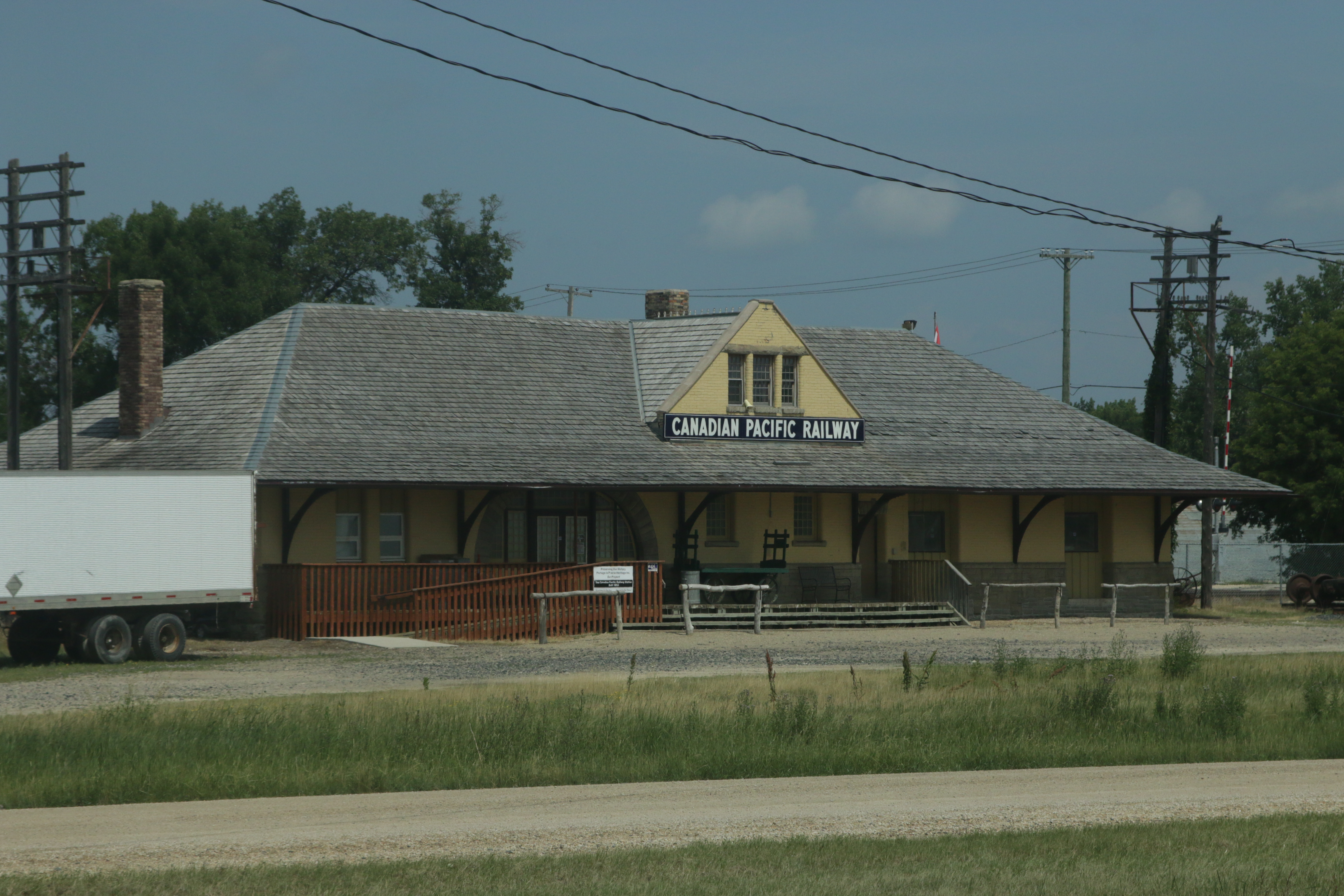 View of station on North side of rail yard in Portage La Prairie, Manitoba